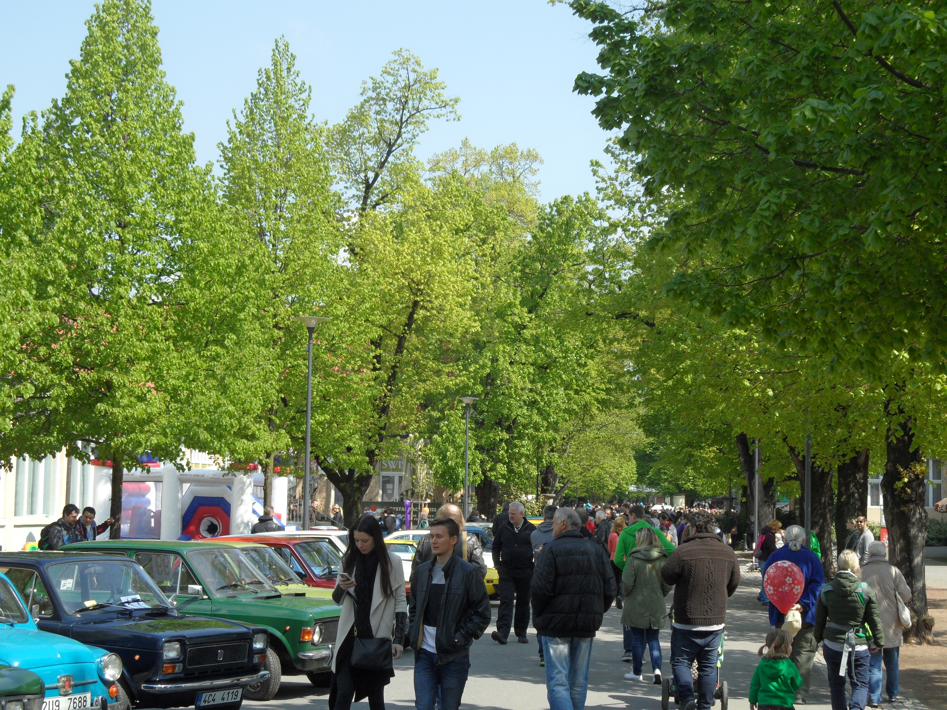 18th Meeting of Italian Car in Poděbrady; Nymburk District, the Czech Republic.Visitors.